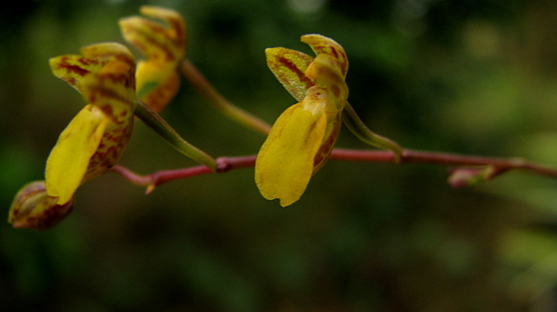 Leochilus labiatus, first record for Bahia, Brazil.